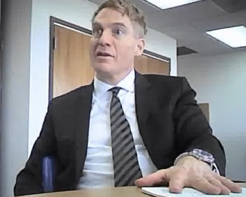 Still from a secretly recorded video of Greg Lindberg discussing campaign contributions with Mike Causey